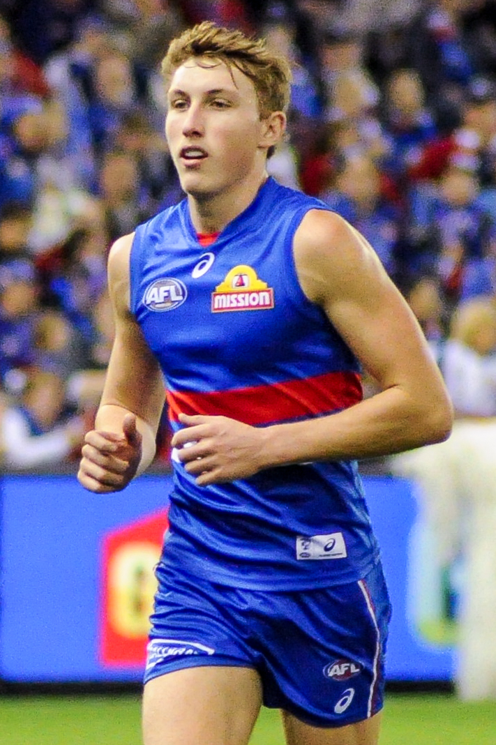 Bailey Dale during the AFL round thirteen match between the Western Bulldogs and Melbourne on 18 June 2017 at Etihad Stadium in Melbourne, Victoria.